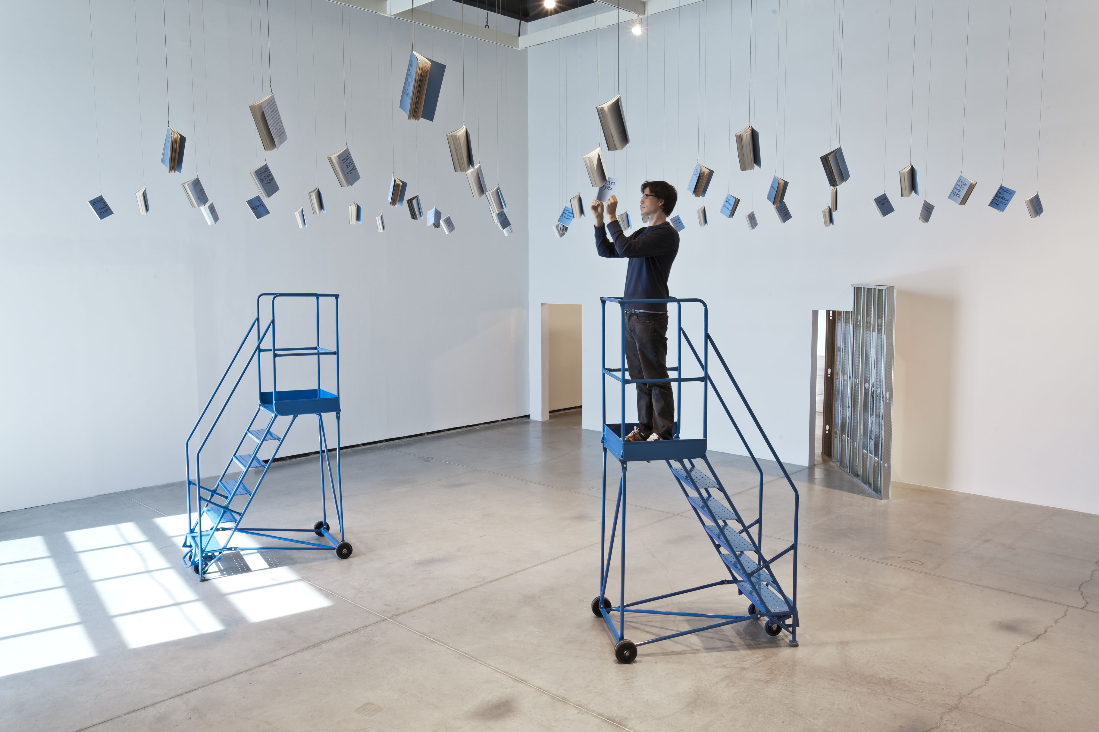 One of two rooms of Derek Sullivan's 2011 exhibition, Albatross Omnibus. Fifty-two different artist's books were created by the artist for the exhibition, which could only be accessed using the wheeled staircases.